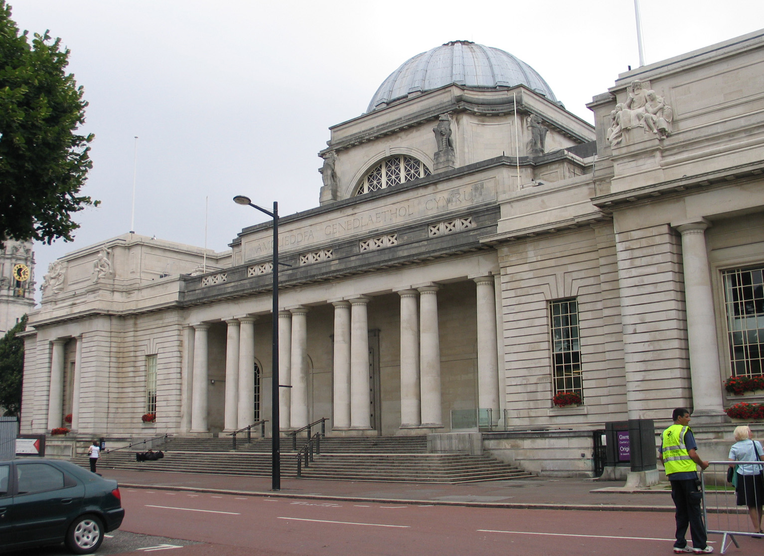 National museum Cardiff, front side